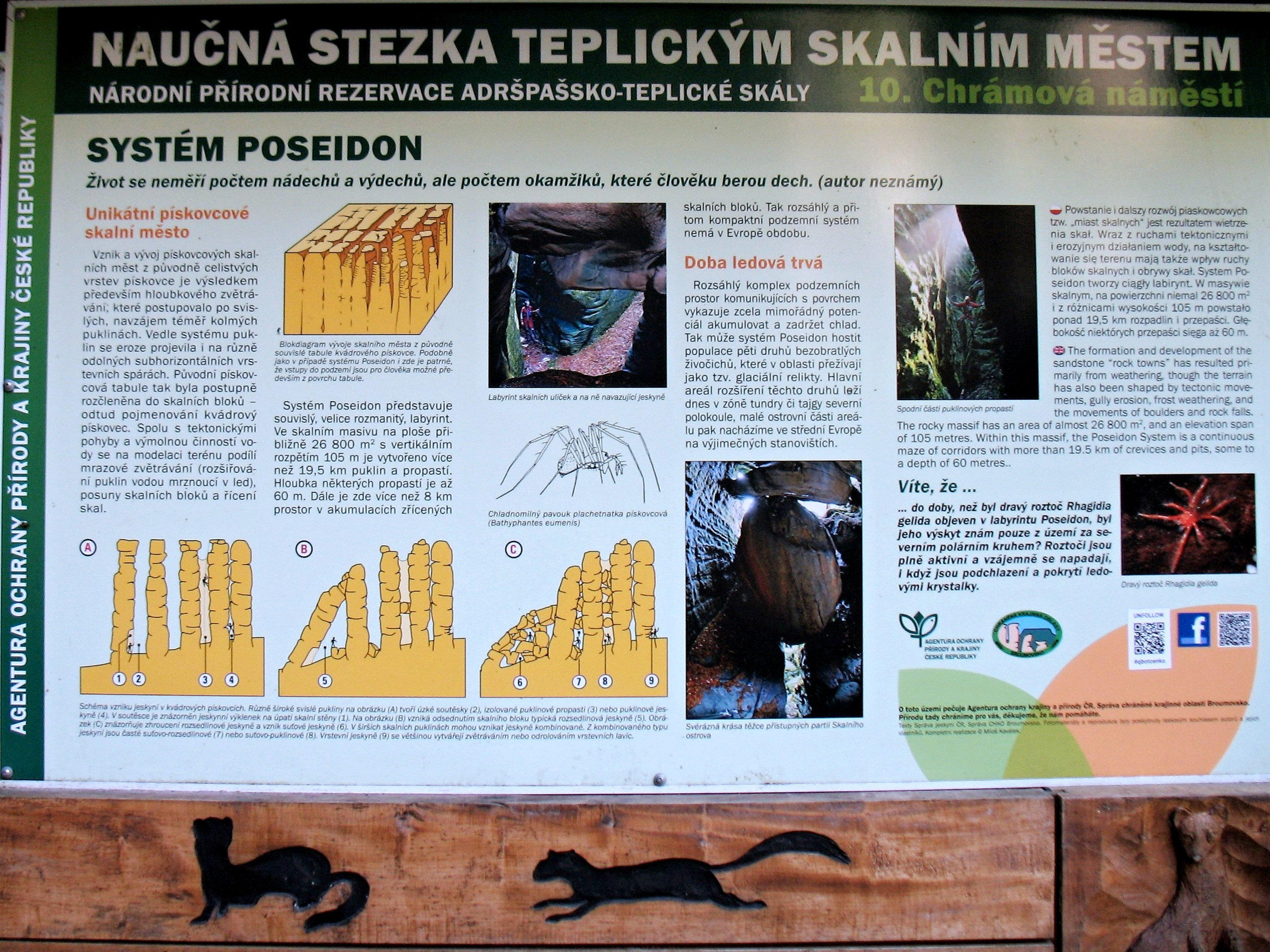 Information about underground system Poseidon, rocks Teplické skály, Czech Republic